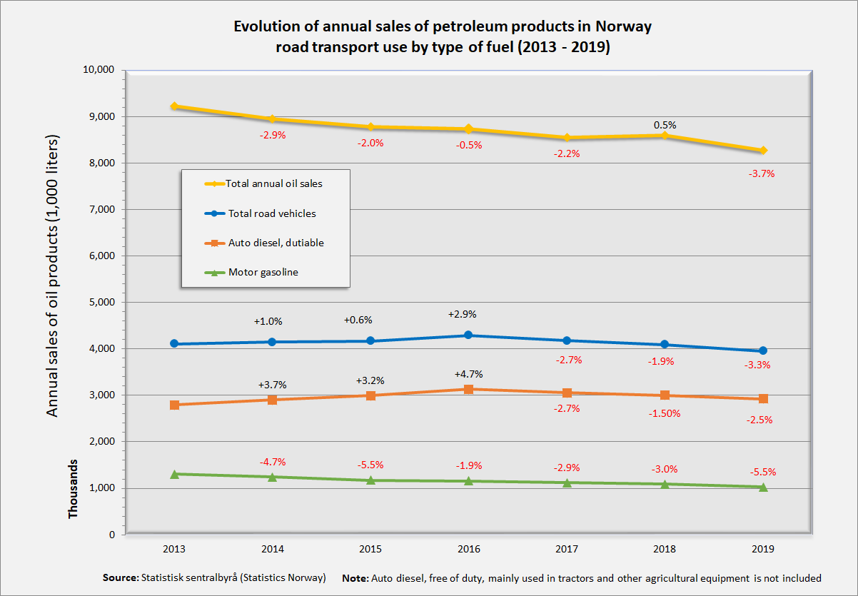 Historical trend of annual sales of petroleum products in Norway and otal sales and products for road vehicles (diesel and gasoline) from 2013 to 2019. Source: Statistisk sentralbyrå (Statistics Norway), data series here